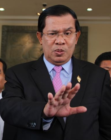 Cambodian Prime Minister Hun Sen (R) talks to the press with Sam Rainsy (L) president of the Cambodia National Rescue Party (CNRP), after the National Assembly vote to select the members of National Election Committee in Phnom Penh, Cambodia on April 9th, 2015.